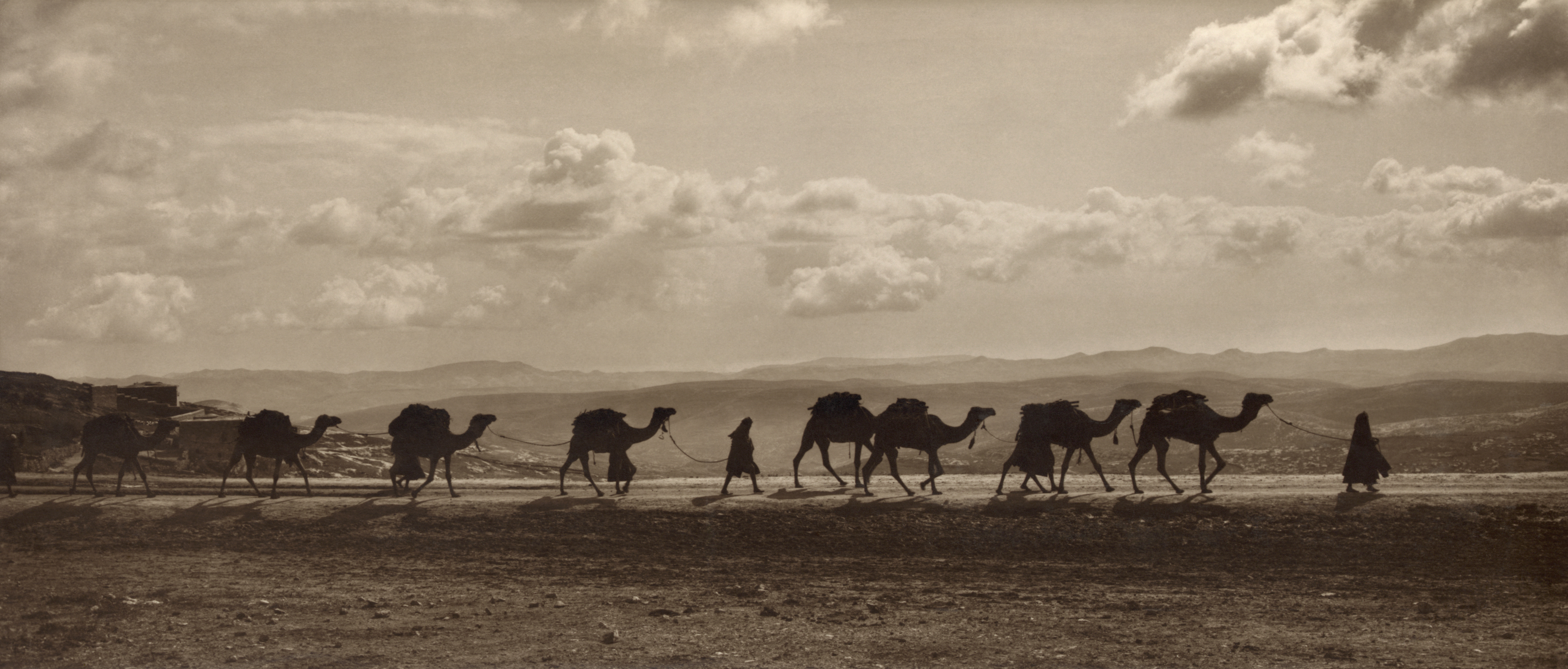 "Egyptian camel transport passing over Olivet, 1918."